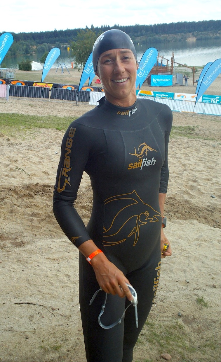 Silvia Felt at Ironman Germany 2011